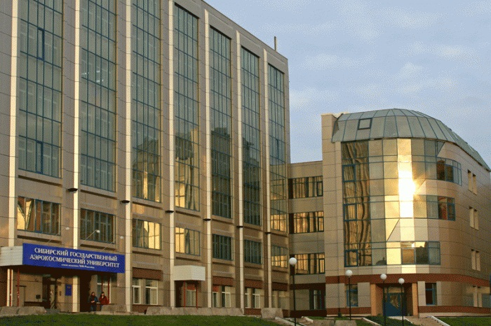 Siberian State Aerospace University (Krasnoyarsk), New corpus-H